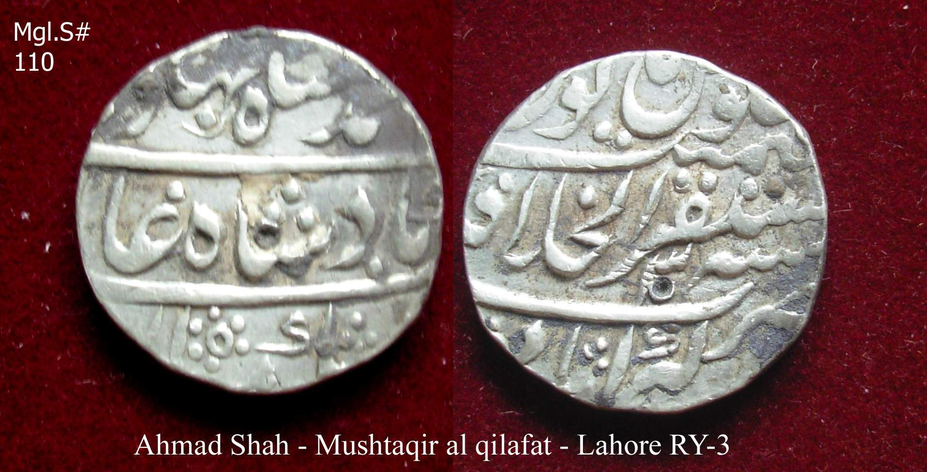 A rupee coin from my cabinet